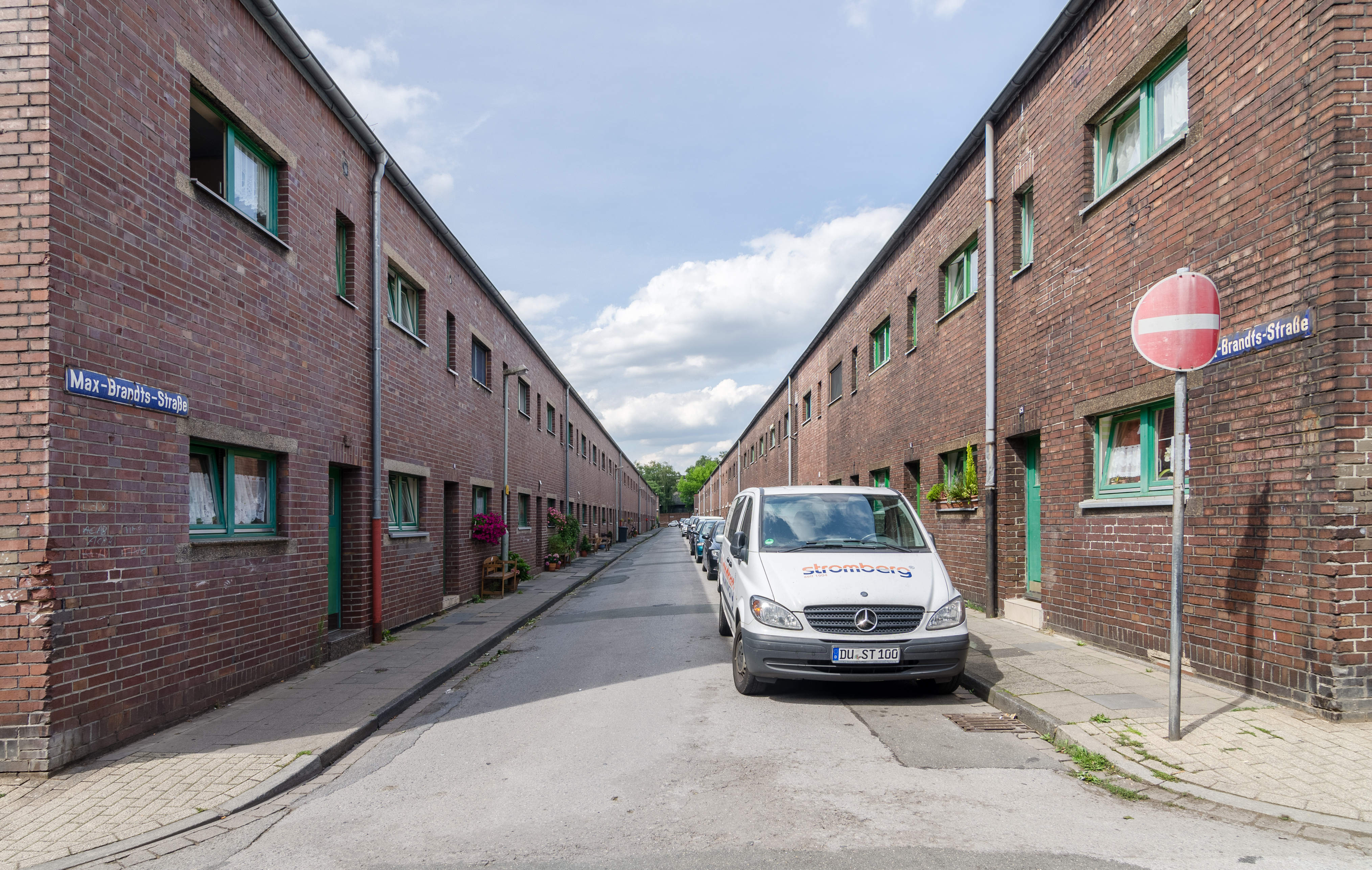 Duisburg (North Rhine-Westphalia, Germany) – borough Mitte, district Wanheimerort – Dickelsbach housing estate